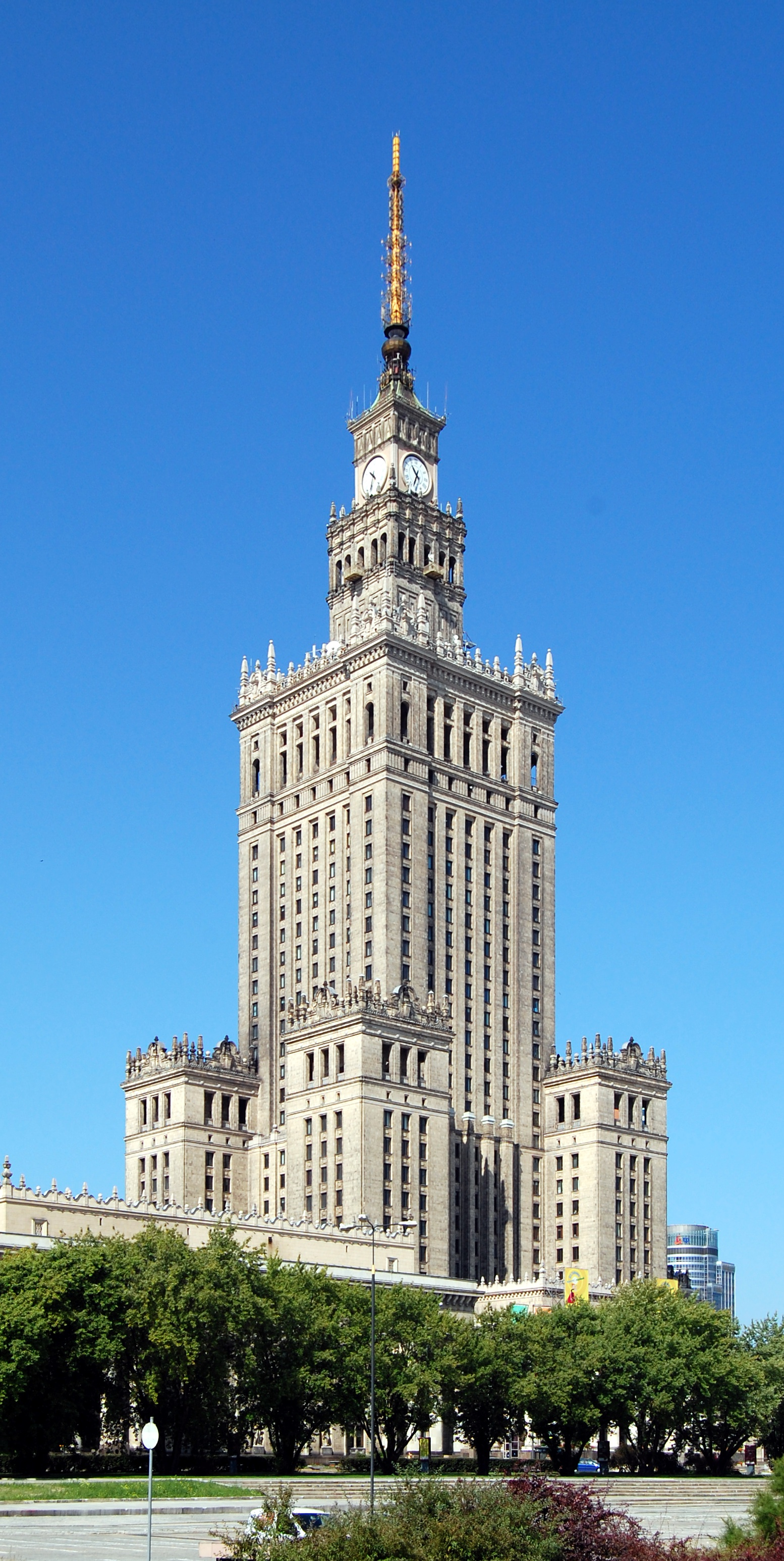 Palace of Culture and Science, Warsaw, Poland.